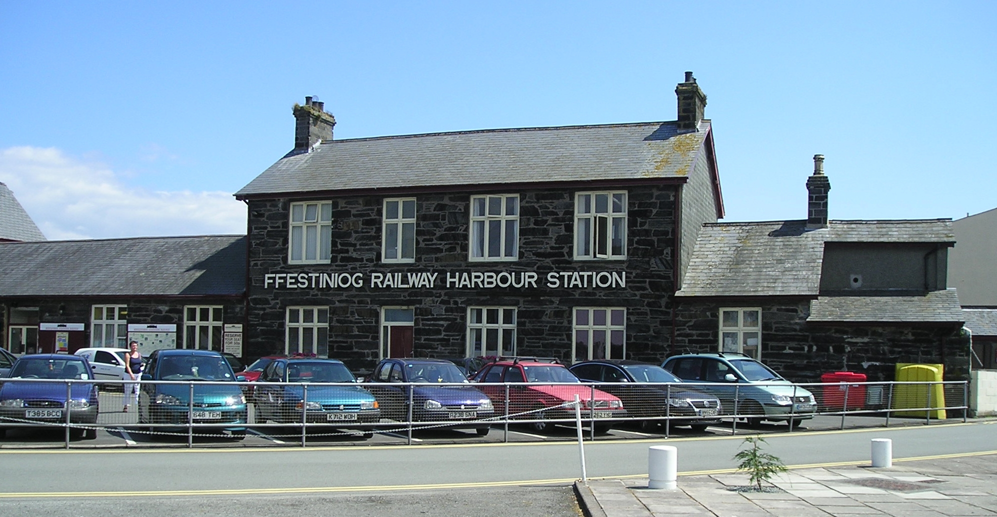 Porthmadog Harbour station of the Ffestinog Railway